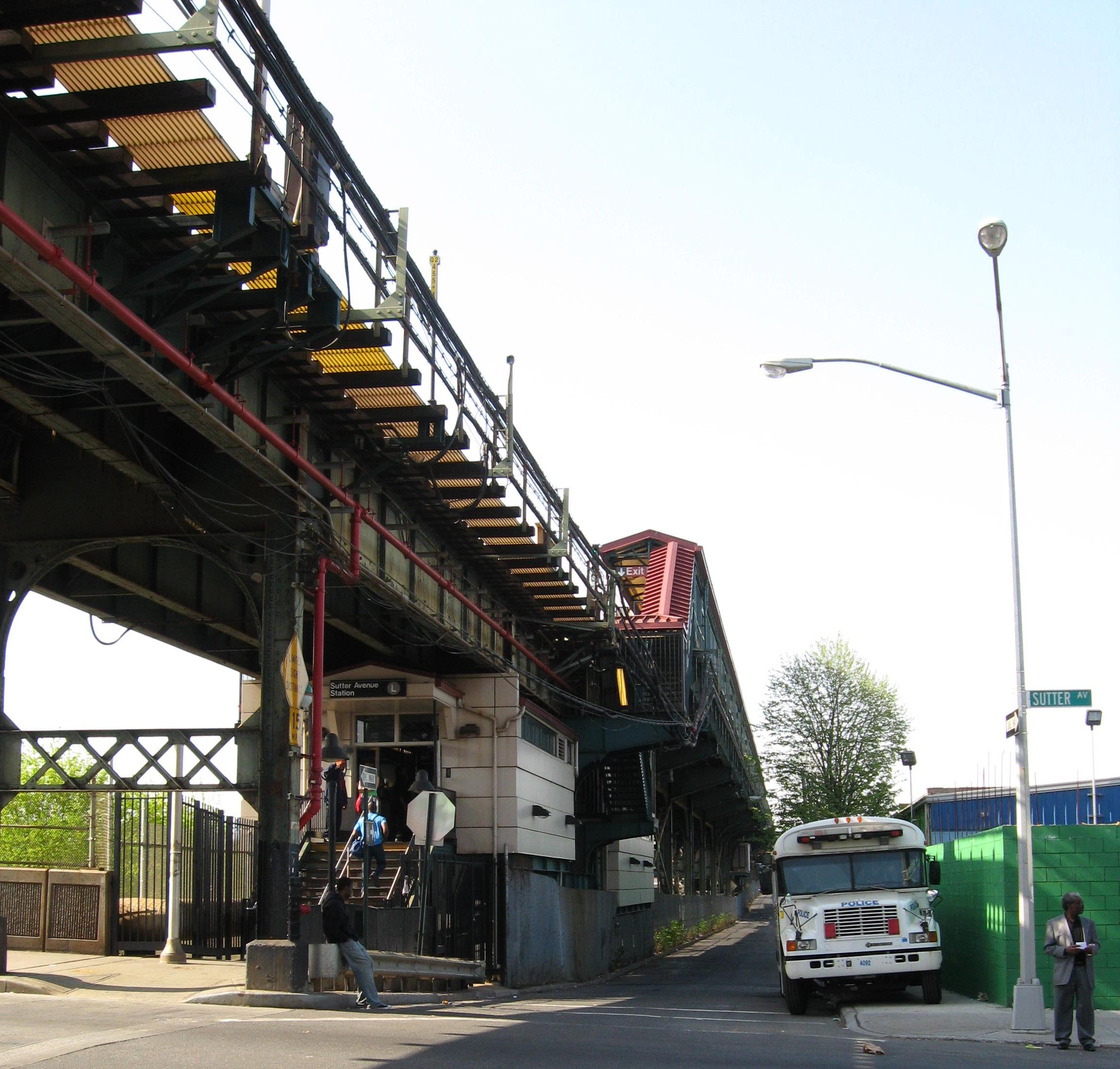 Looking northwest at eastern stair of Sutter Avenue (BMT Canarsie Line) station on a sunny afternoon in springtime.